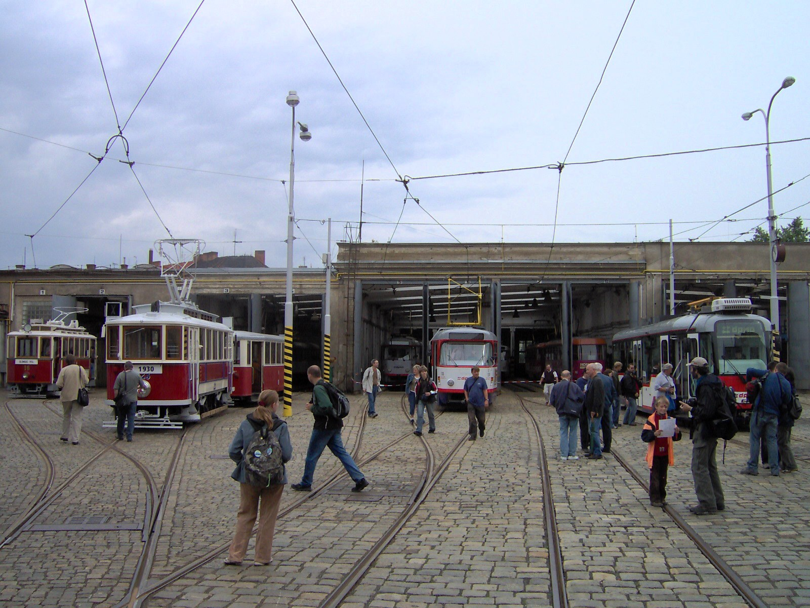 Tram depot, Olomouc, Czech Republic